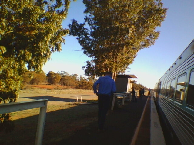 Railway platform at Euabalong West railway station with train to Broken Hill in view